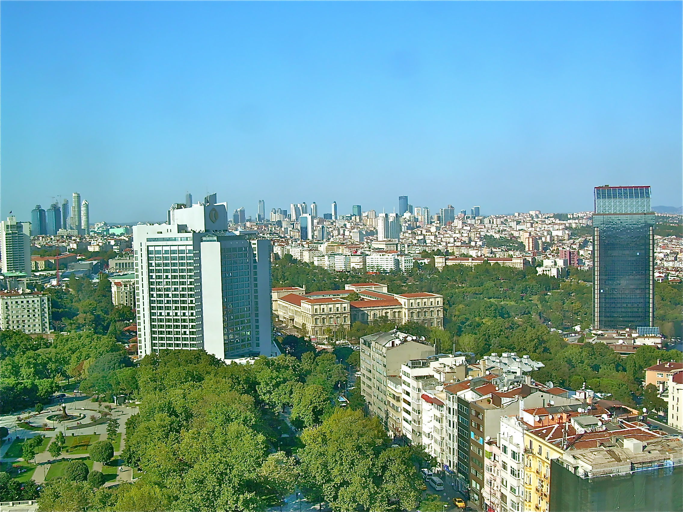 The İstanbul skyline as seen from the Marmara-hotel on Taksim Meydanı/Taksim square. Photo taken on 3 September 2009.